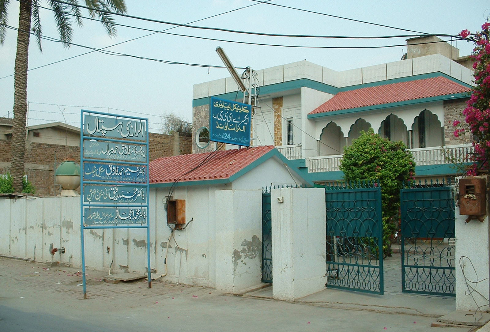 Batala Colony Faisalabad Razi Hospital